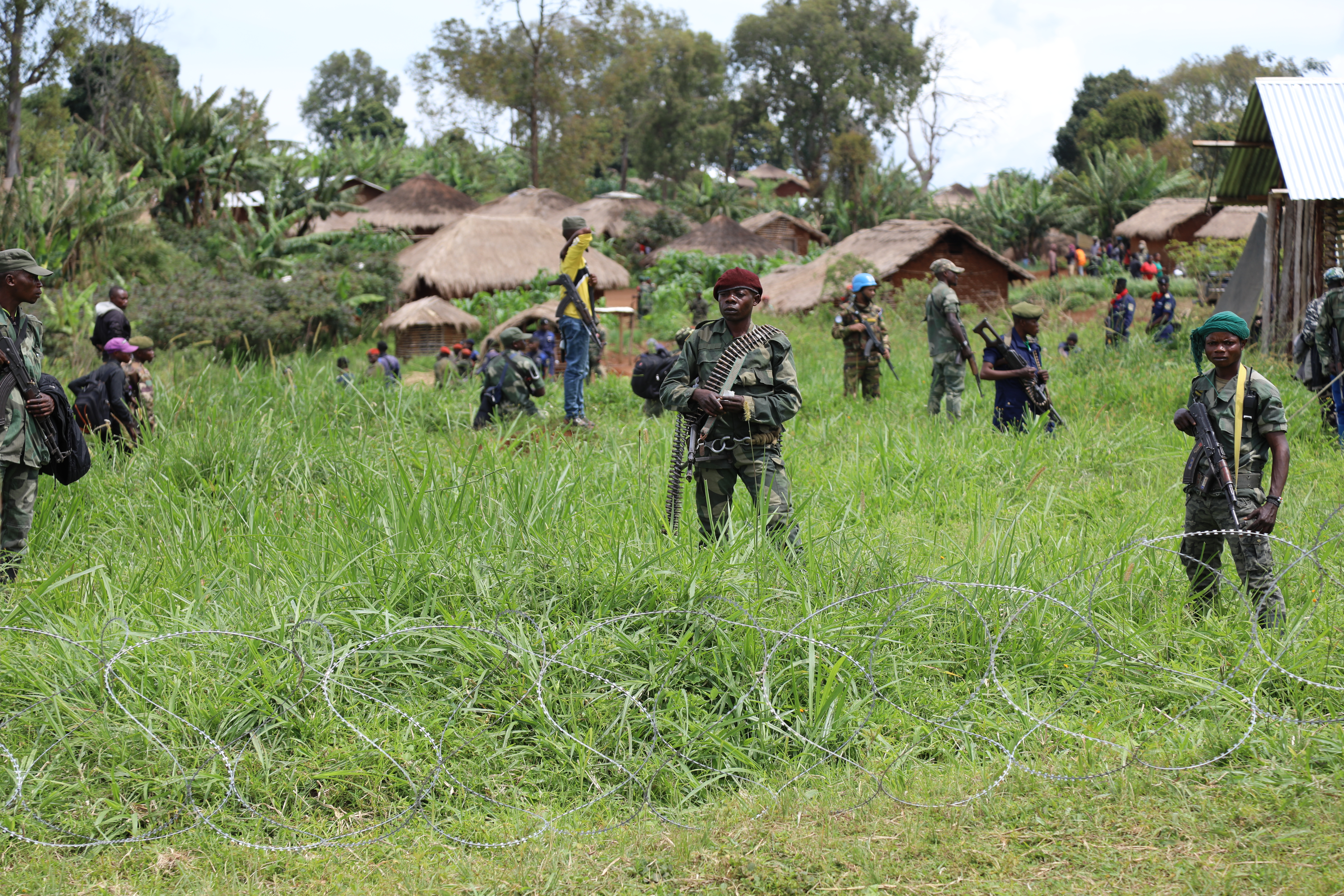 Caption: Kamatsi, Ituri Province, DRC: MONUSCO provides secured environment, in the presence of provincial authorities, Deputy Commander Brigadier General Sadiki MABOKO of the 32nd FARDC military region , the national coordinator of the National Oversight Mechanism of the Addis Ababa Framework Agreement, Ibalanky Ekolomba Claude, on an exploratory mission to revive the process of disarming militiamen of the Ituri Patriotic Resistance Front (FRPI), led by Mbadhu Adirodu, by the Congolese government. Photo MONUSCO / Michael Ali